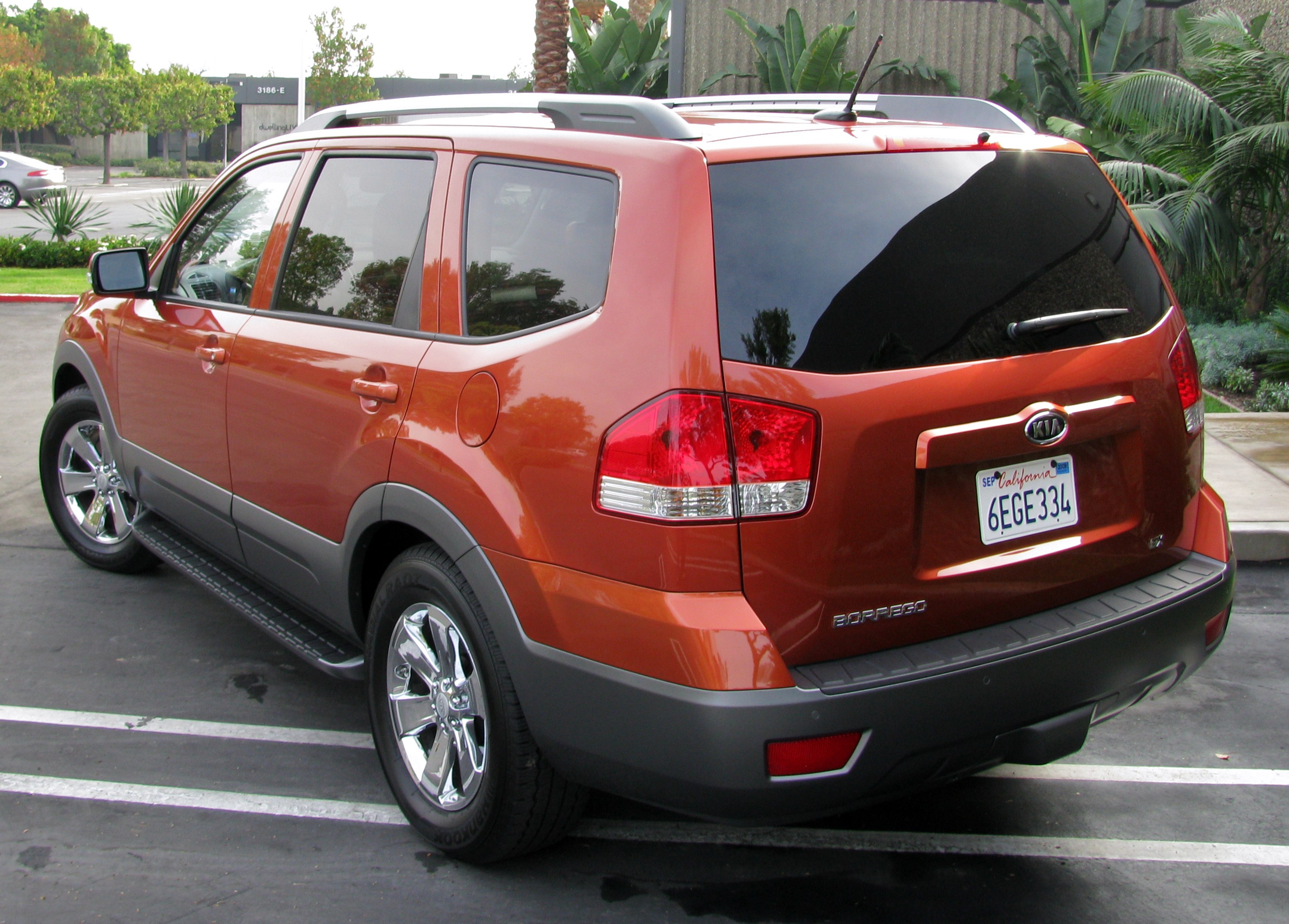 Read our review of the 2009 Kia Borrego EX 4x4 For Pricing and more information on the 2009 Kia Borrego head to NADAguides